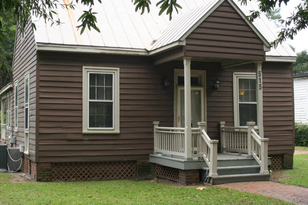 Barge's Tavern The tavern was moved from the lowland creek property about a mile away to the property of the chamber of commerce situated with another historic building. When the chamber of commerce moved, the property was sub-divided and Barge's Tavern received a new street address of 515 Ramsey Street.